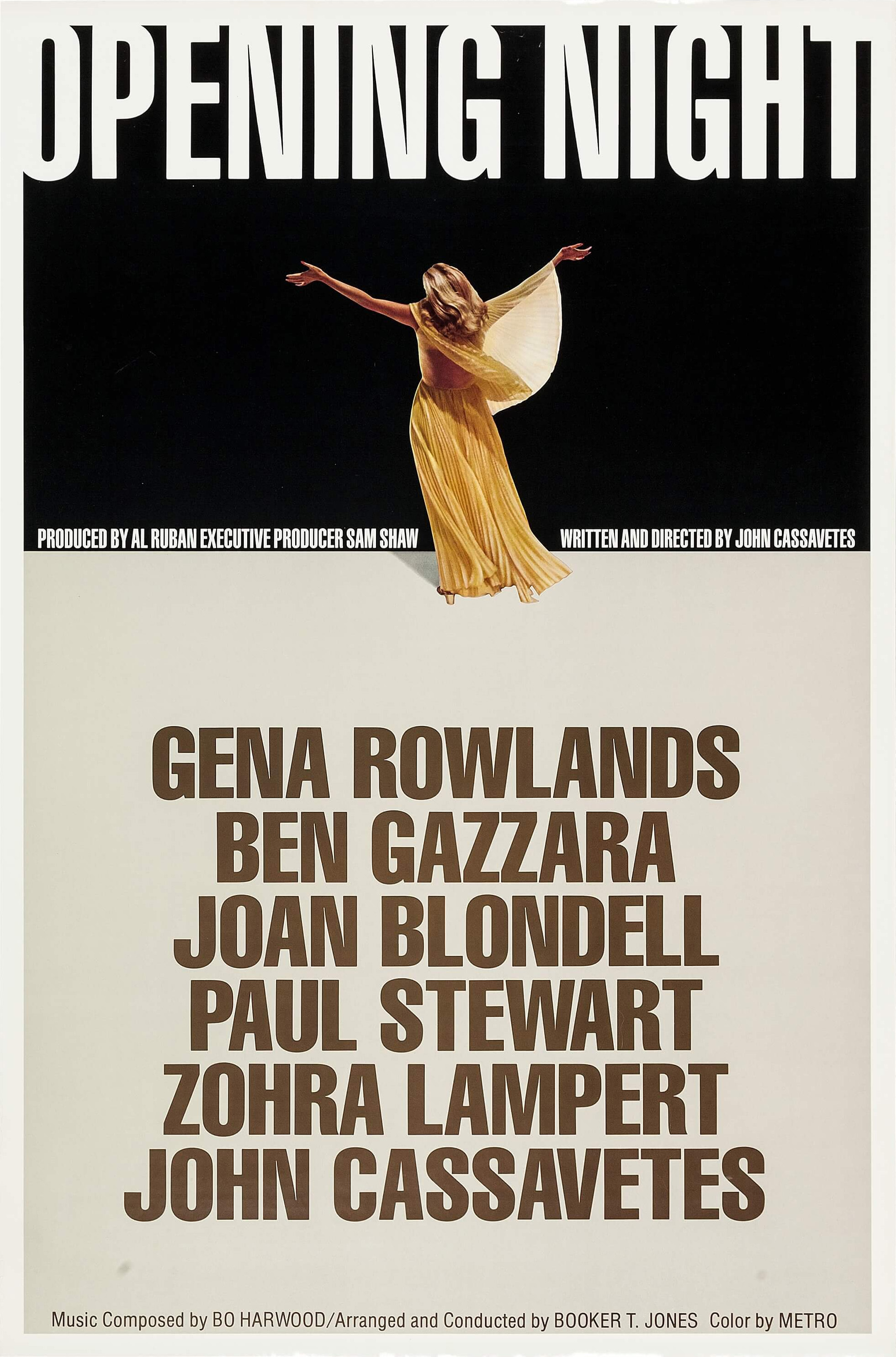 Alternate theatrical release poster for John Cassavetes's 1977 film Opening Night.